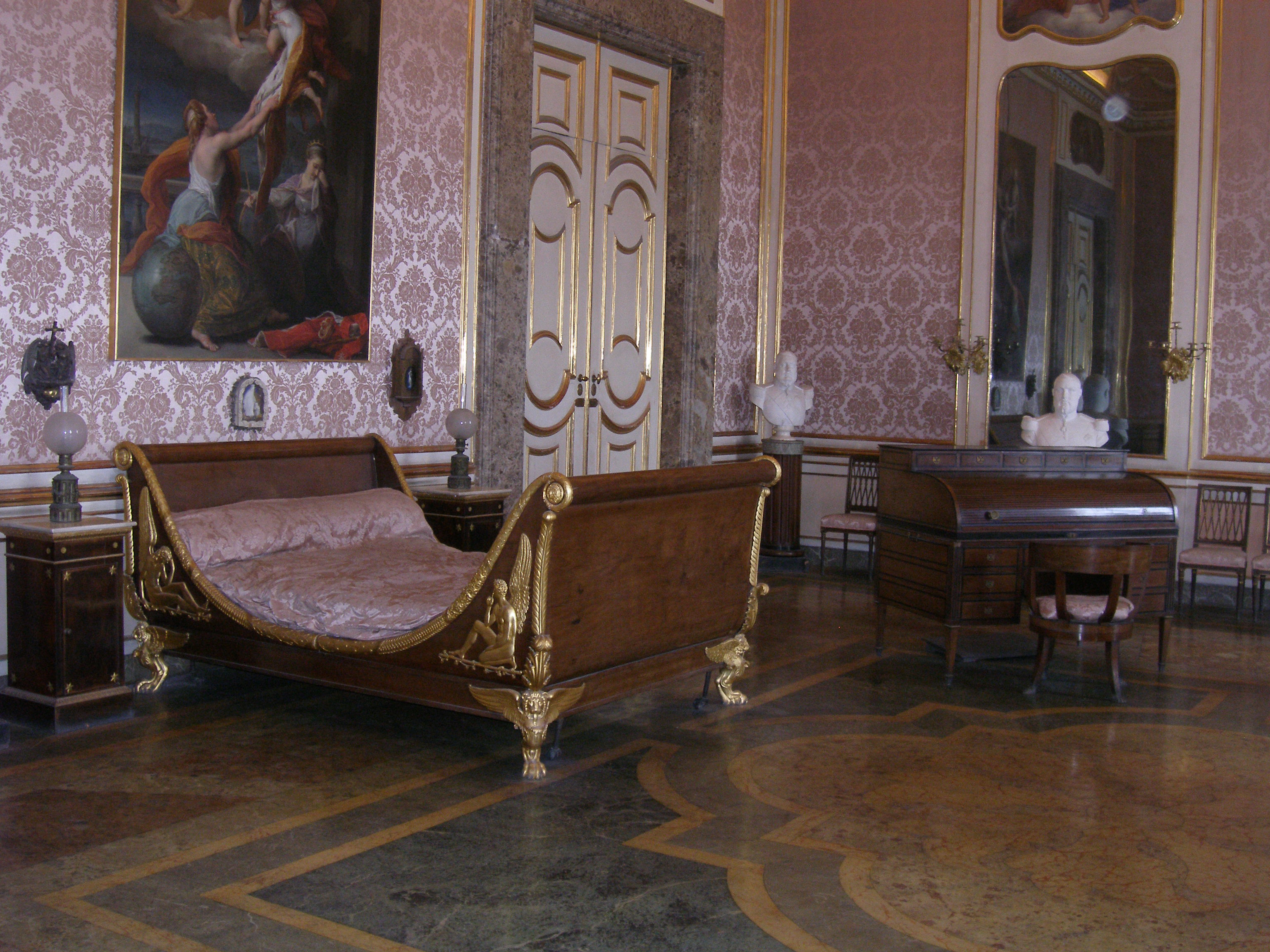 Bedroom of Ferdinand in Caserta Palace